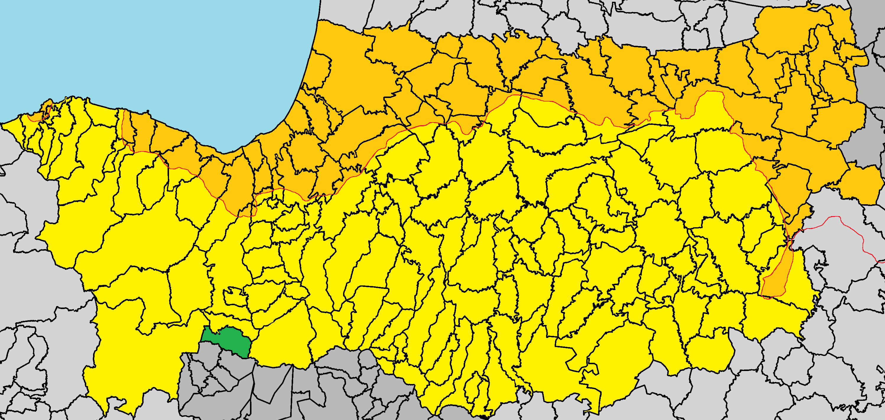 Pedoulas in Nicosia District.